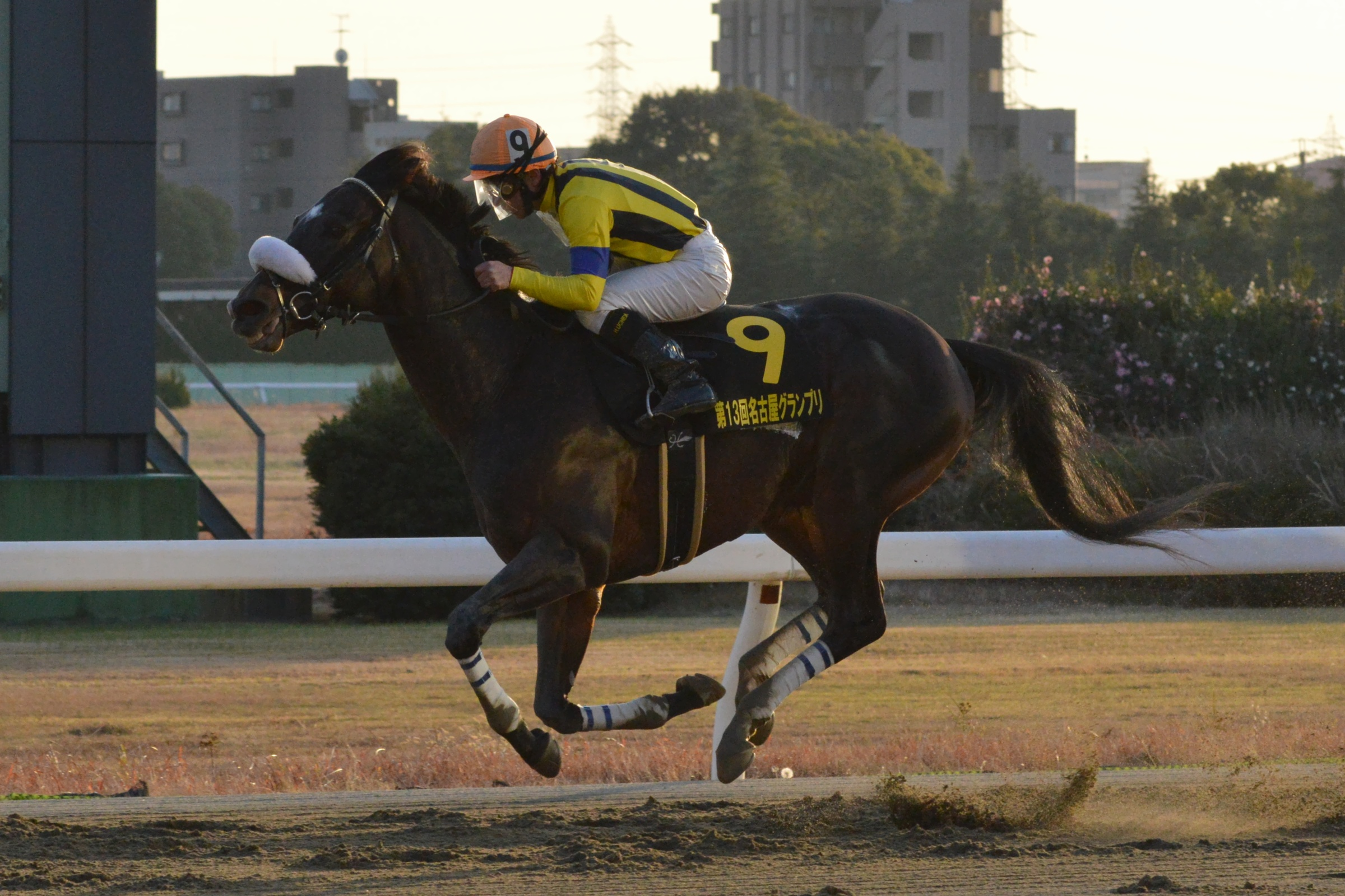 Japanese race horse Civil War at Nagoya racecourse. Nagoya (JPN) 25 Dec 2013Nagoya Grand Prix (Local Grade 2) (3yo+) (Dirt) (1m4f110y) 1m41/2f Standard RankHorse NameOddsAgeWgtTrainerJockey1stCivil War (JPN)14/5H89-0Hirofumi TodaHiroyuki Uchida2ndTosho Freak (JPN)51/10H68-11Teiichi KonnoYutaka Take3rdNice Meet You (JPN)19/10FH68-11Kojiro HashiguchiFutoshi Komaki4th - 12th/omission